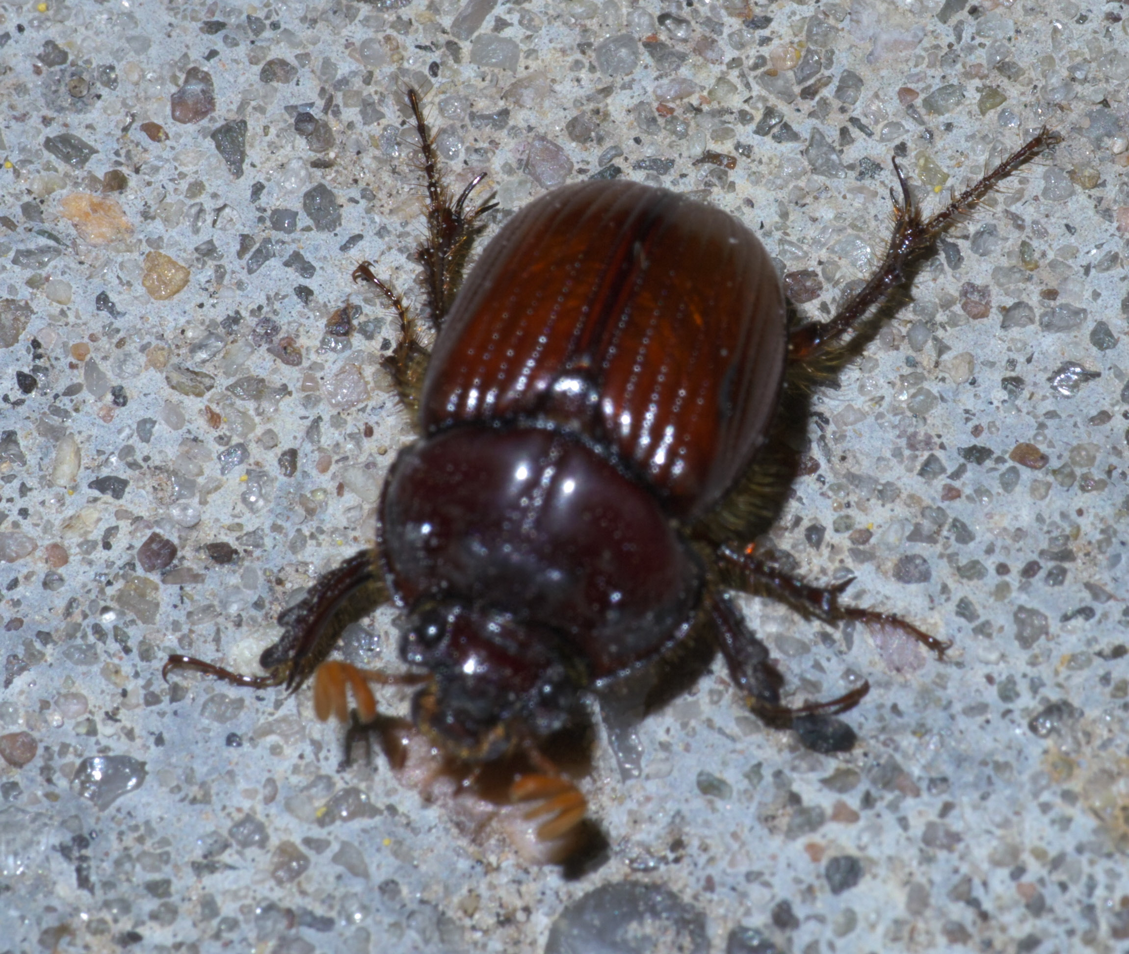 Eucanthus, Family: Earth-Boring Scarab Beetles, ID Confidence: 98